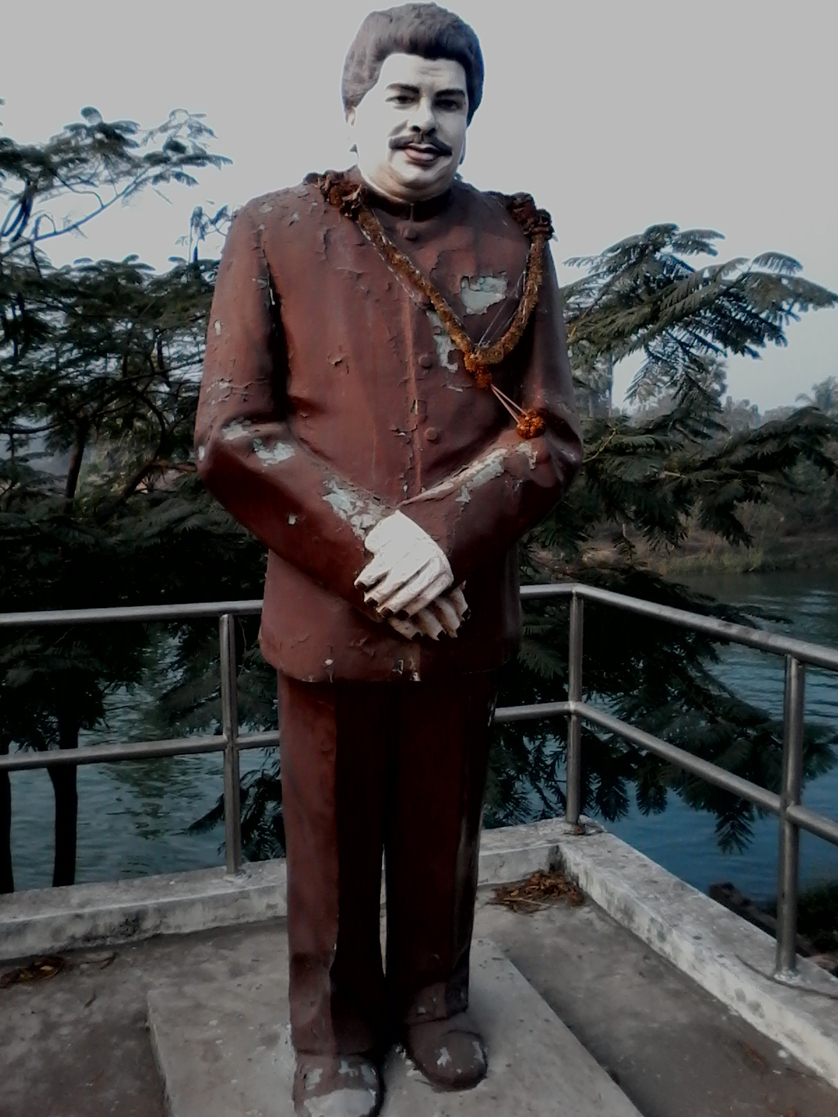 Statue of G.M.C.Balayogi, Indian parliament former speaker at Vemagiri, E.G.Dist.